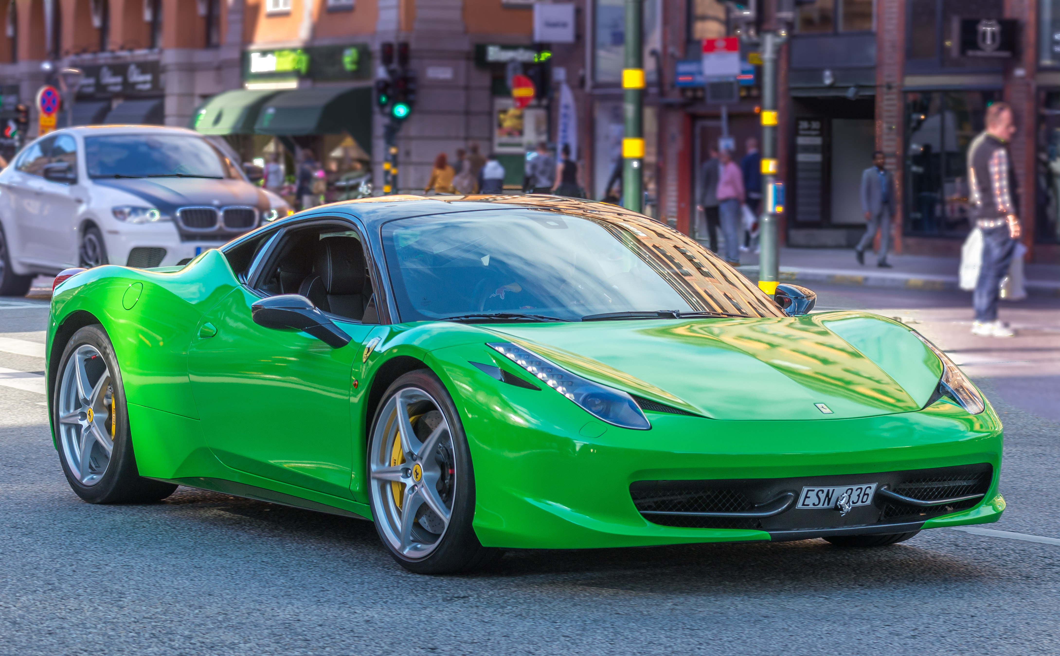 Ferrari 458 Italia on Sveavägen in Stockholm 2016.